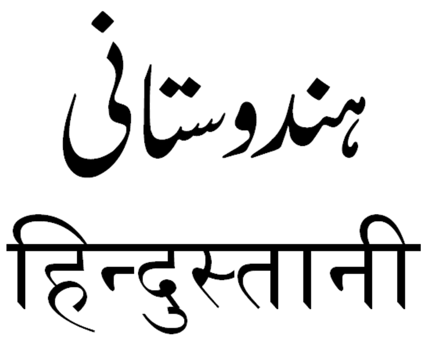 Updated Urdu writing to a nicer font.